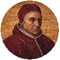 H.H. Pope Innocent VII